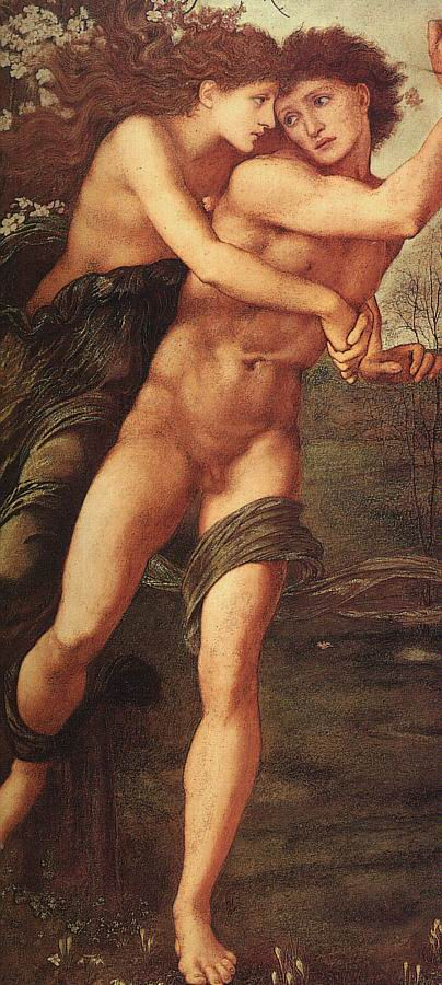 Phyllis and Demophoön